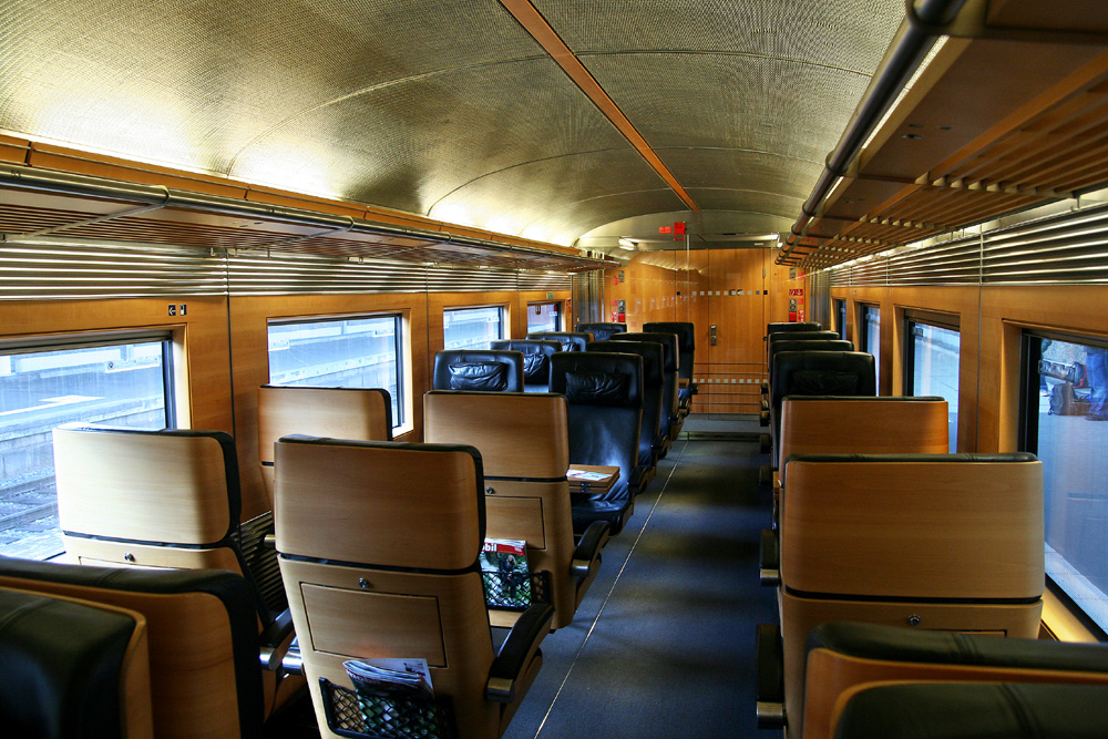 Interior of a first-class Metropolitan car (2008)